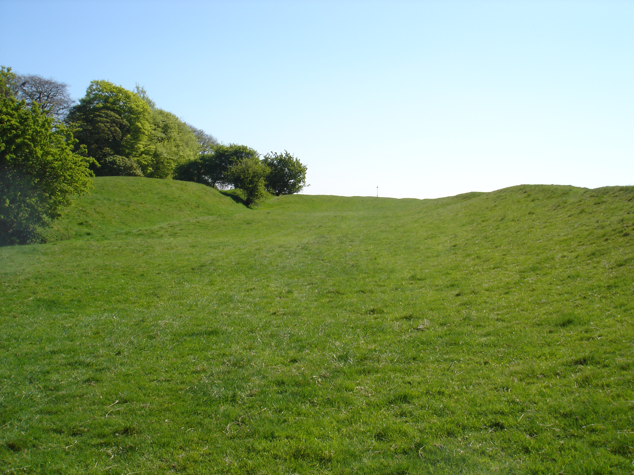 Banqueting Hall area of the Hill of Tara, County Meath, Ireland